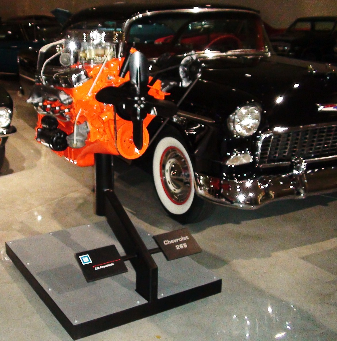 GM Heritage Center.